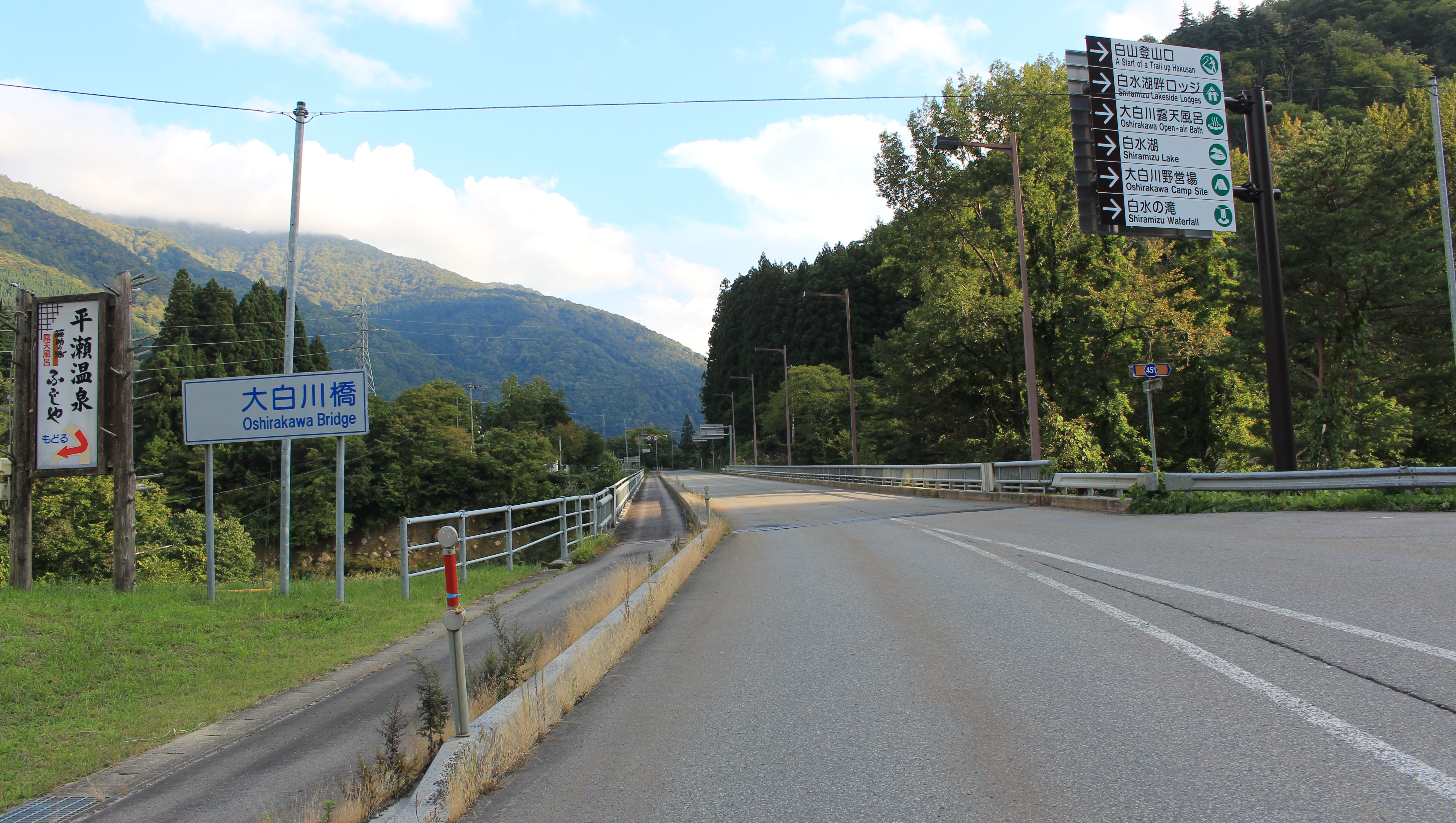 Oshirakawa Bridge of Route 156 and Gifu Prefectural Road Route 451 in Shirakwa village, Gifu prefecture, Japan.